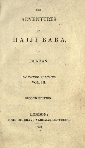 The cover of the second edition (1824) The adventures of Hajji Baba of Ispahan by James Justinian Morier.